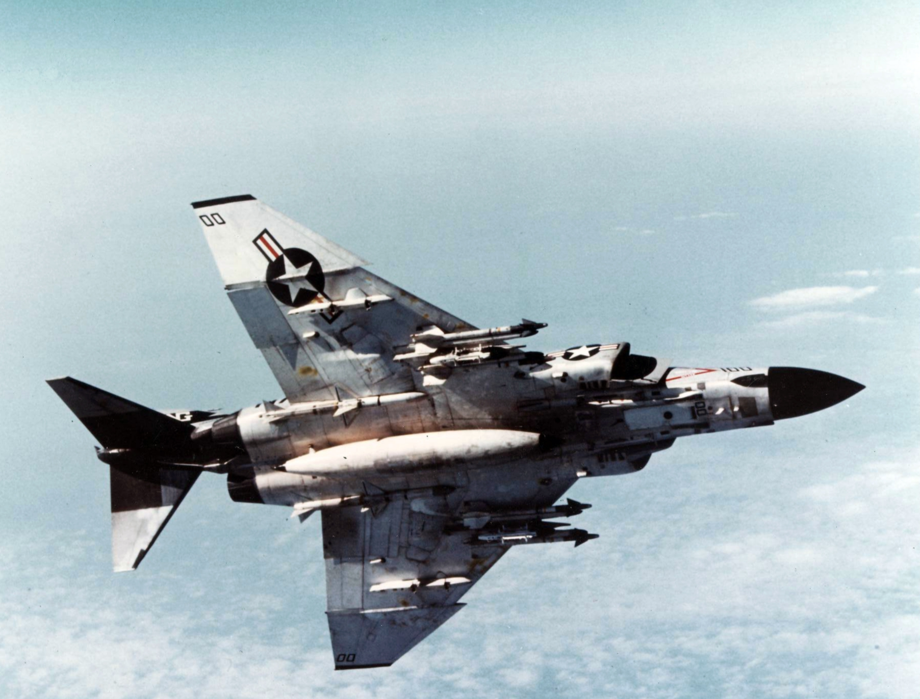 The U.S. Navy McDonnell Douglas F-4J Phantom II (BuNo 155800, NG-100). This aircraft was assigned to fighter squadron VF-96 Fighting Falcons, Carrier Air Wing 9 (CVW-9), aboard the aircraft carrier USS Constellation (CVA-64) in February 1972. Having the callsign "Showtime 100" it was used by Lt. Randy Cunningham and Lt.JG Willie Driscoll for their 3rd, 4th, and 5th MiG-kills on 10 May 1972. However, it was hit by a North Vietnamese SA-2 surface-to-air-missile and the crew had to eject over the Gulf of Tonkin.